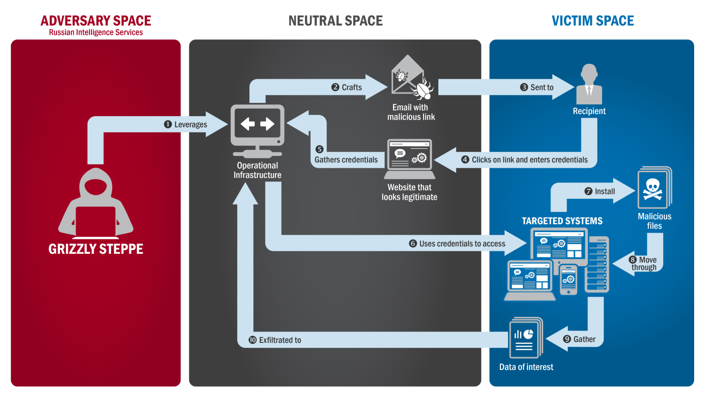 Diagram from US-CERT's report on APT28 and APT29 (aka GRIZZLY STEPPE) Description by source: "Figure 2: APT28's Use of Spearphishing and Stolen Credentials"